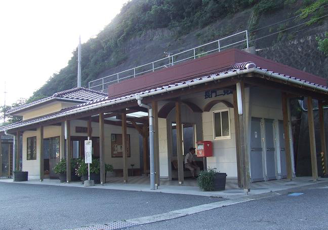 Nagato-Futami Station building